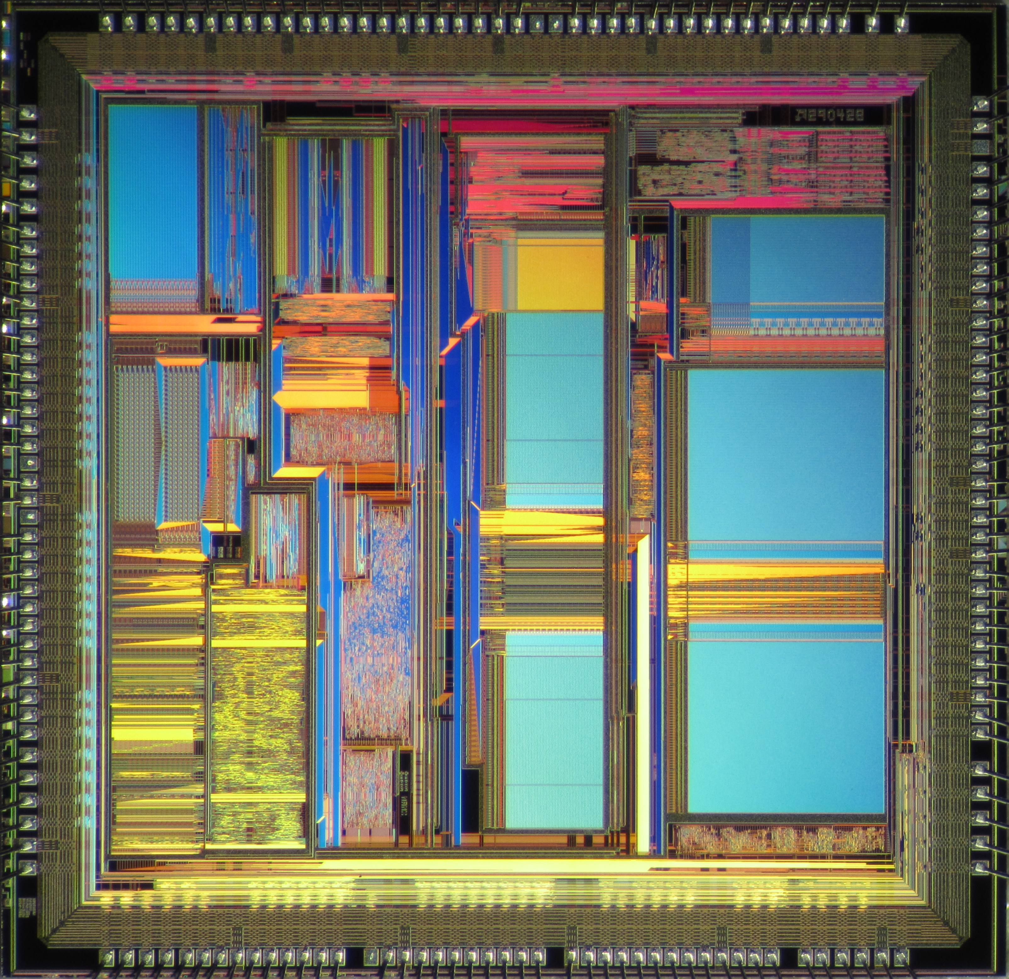 Die shot of AMD Am29040-33GC microprocessor.